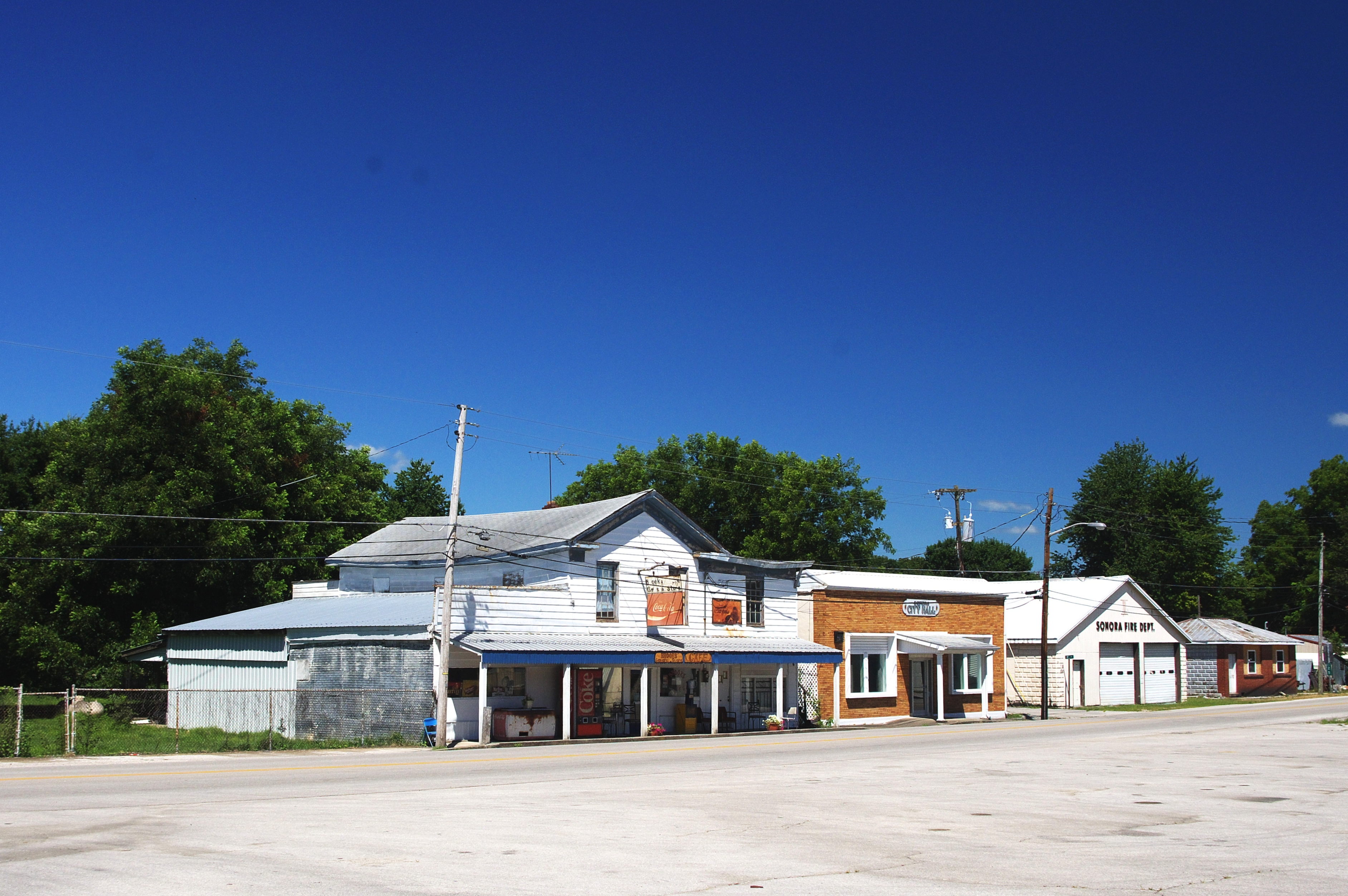 Buildings along Main Street (Kentucky Route 84) in Sonora, Kentucky, United States.